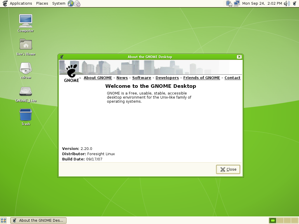 Screen capture of Foresight Linux v1.4, desktop environment GNOME 2.20.0